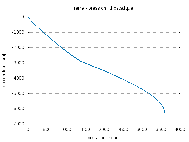 Hydrostatic pressure in the Earth, from the surface downto the center